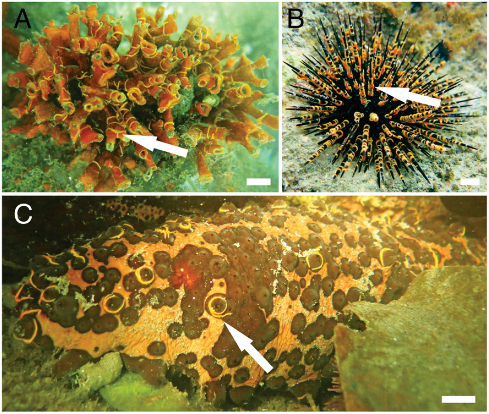 Ophiothela mirabilis Verrill, 1867. Fig. 5 Bryozoan and echinoderms used by Ophiothela mirabilis (arrowed): (a) Schizoporella sp., (b) Echinometra lucunter and (c) Isostichopus badionotus. Images a and c photographed at Morcegos; B at Abraãozinho left. Scale bars: 1 cm.